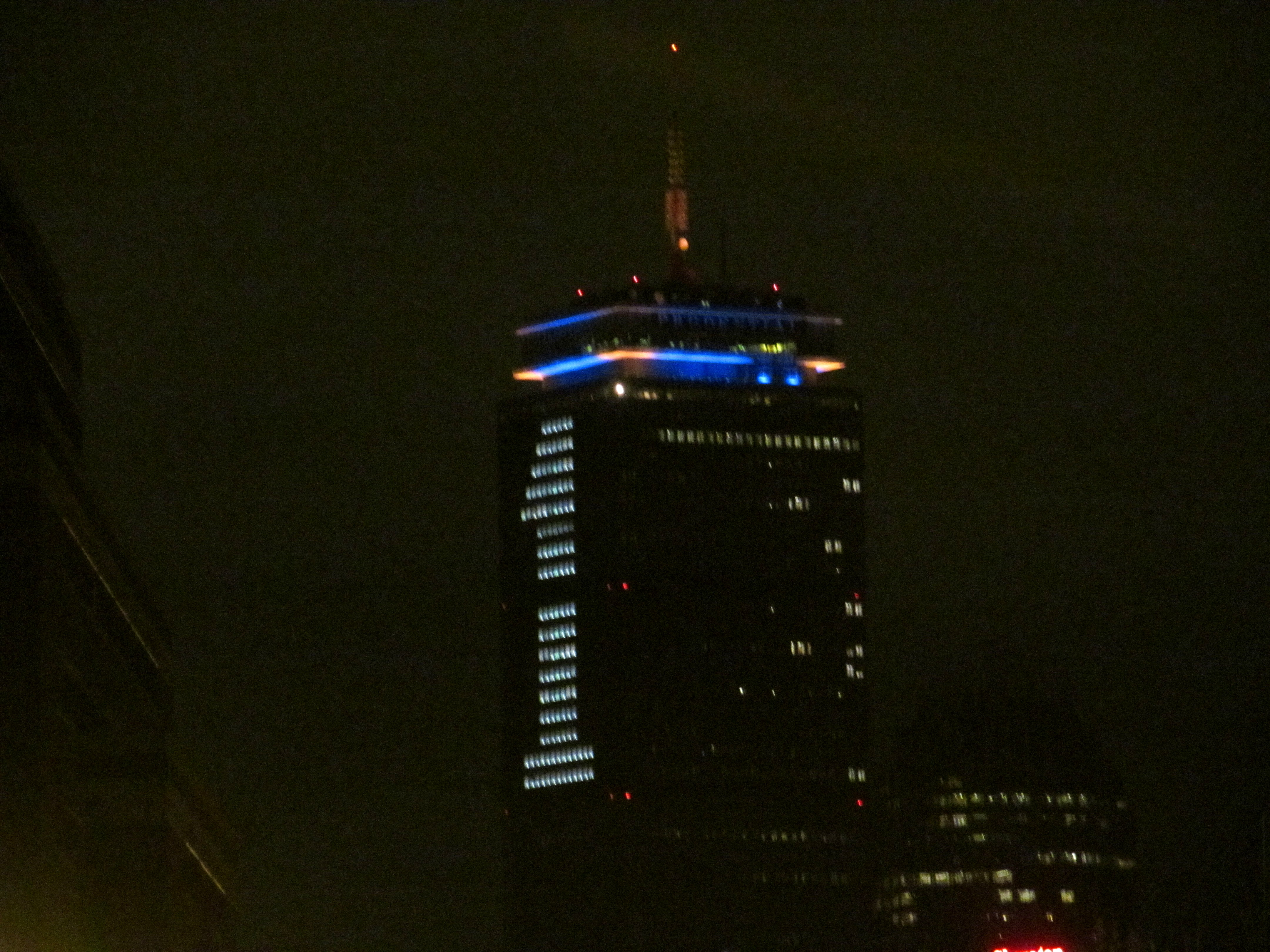 The Prudential building lit up to show a 300-foot "1" after the 2013 Boston Marathon bombings